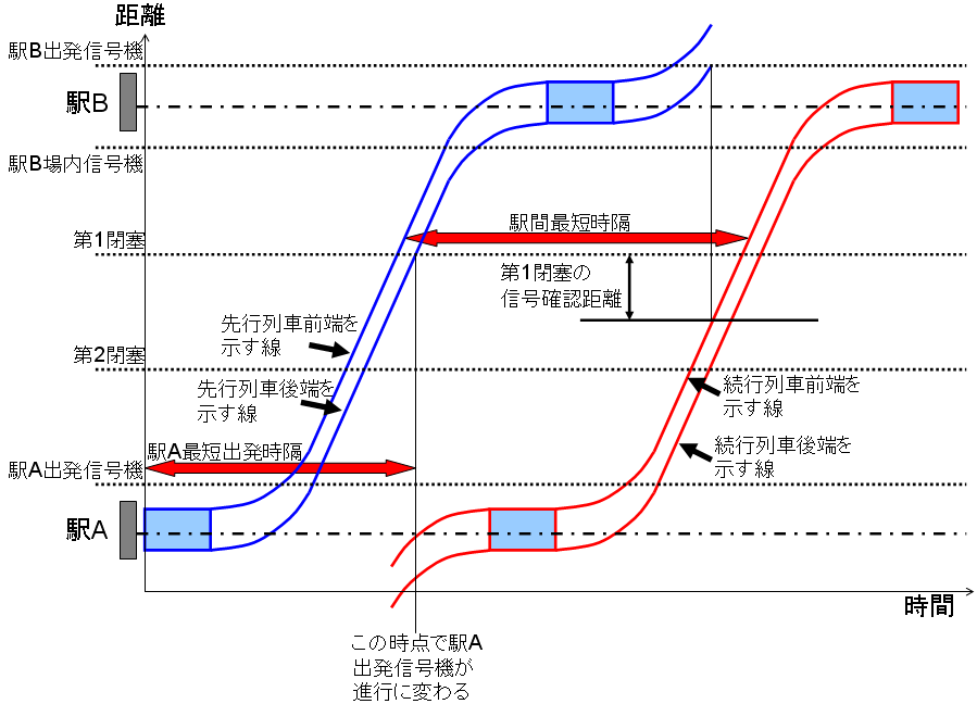 Explanation figure of train headway diagram in Japanese